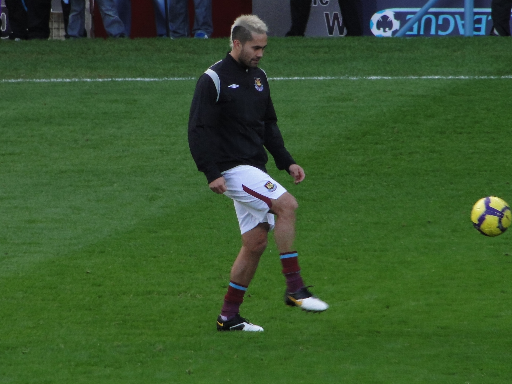 West Ham player Luis Jiménez warmimg-up before their 5-3 home win against Burnley on 28 November 2009